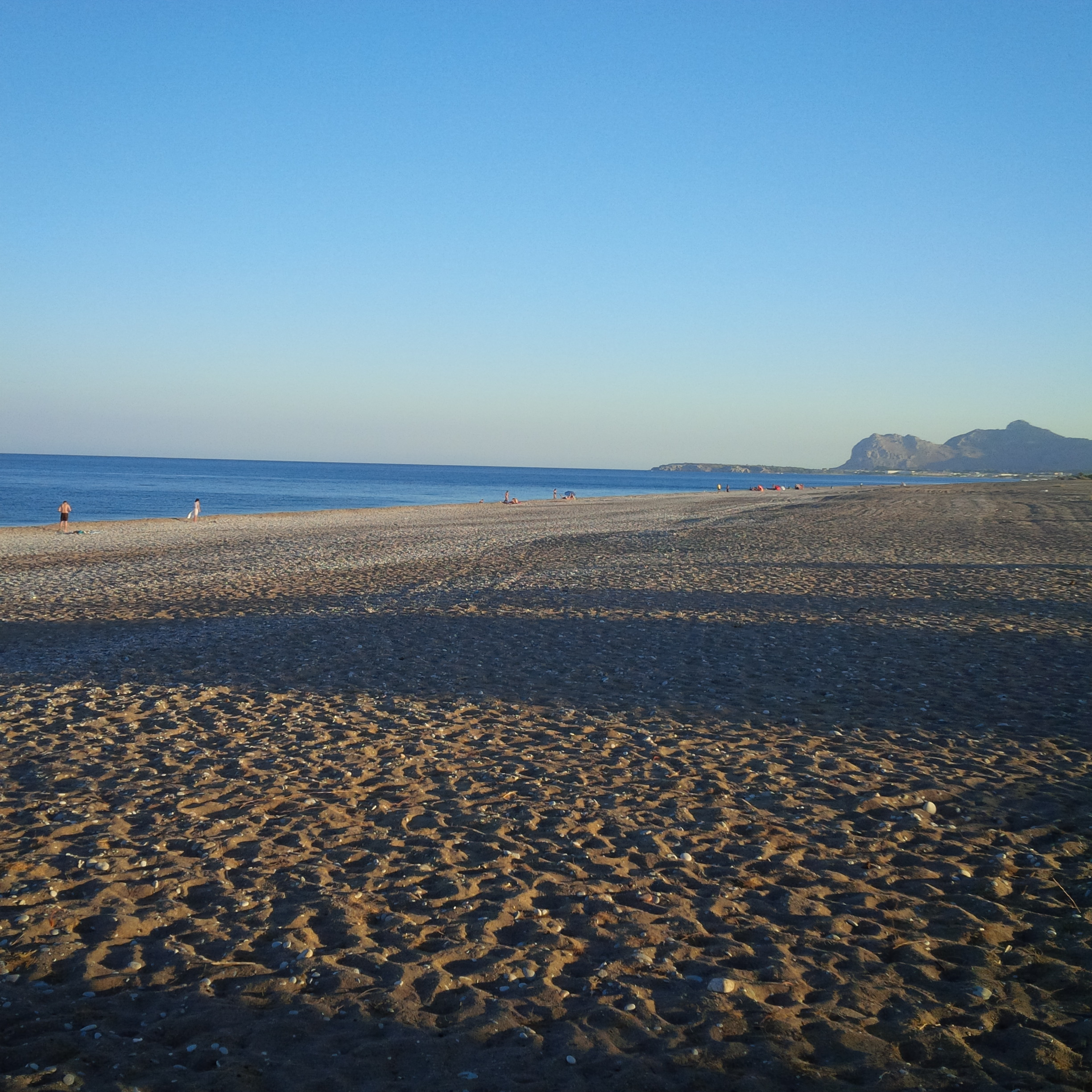 Afantou beach on Rhodes at sunset